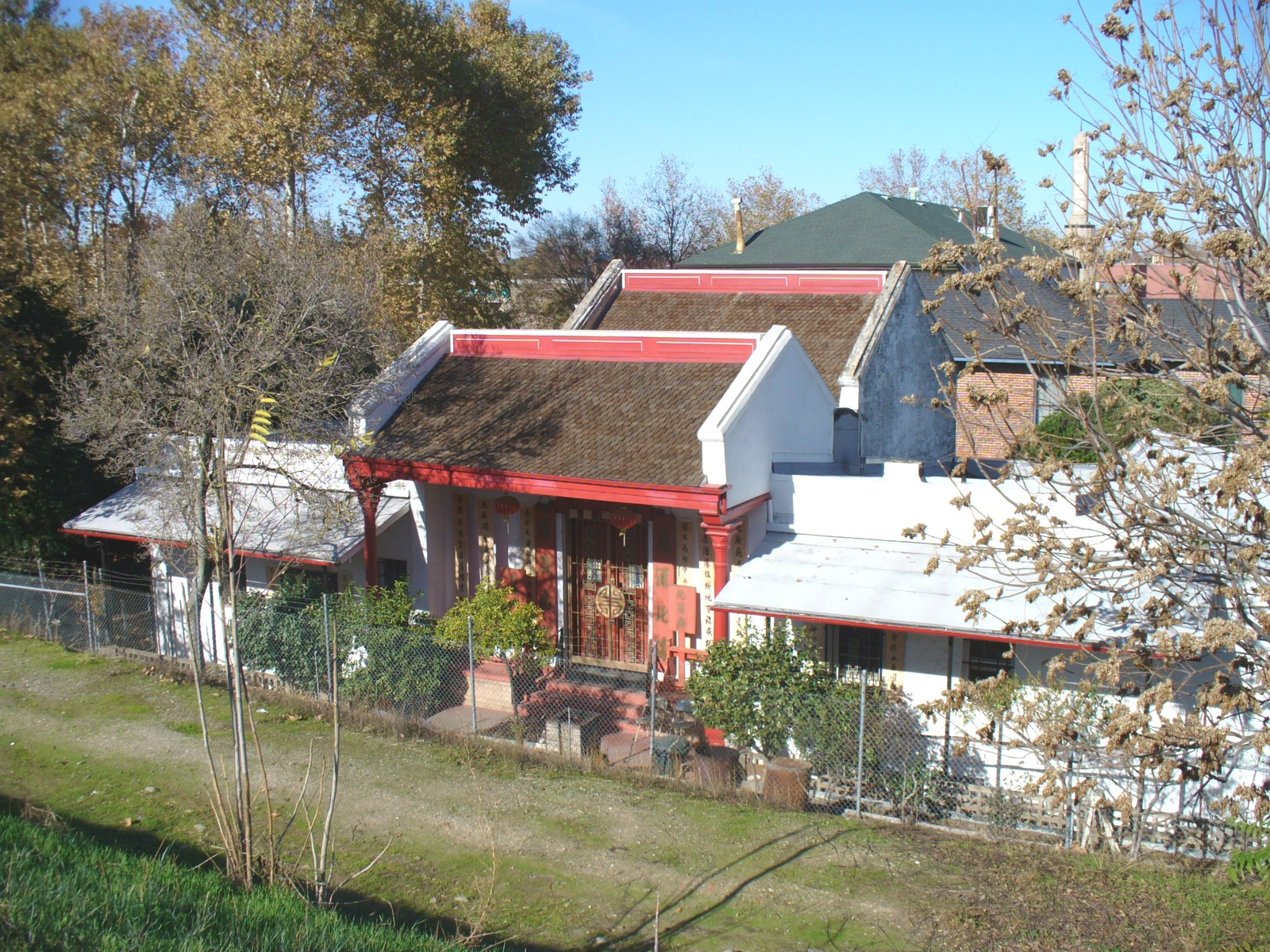 Bok Kai Temple